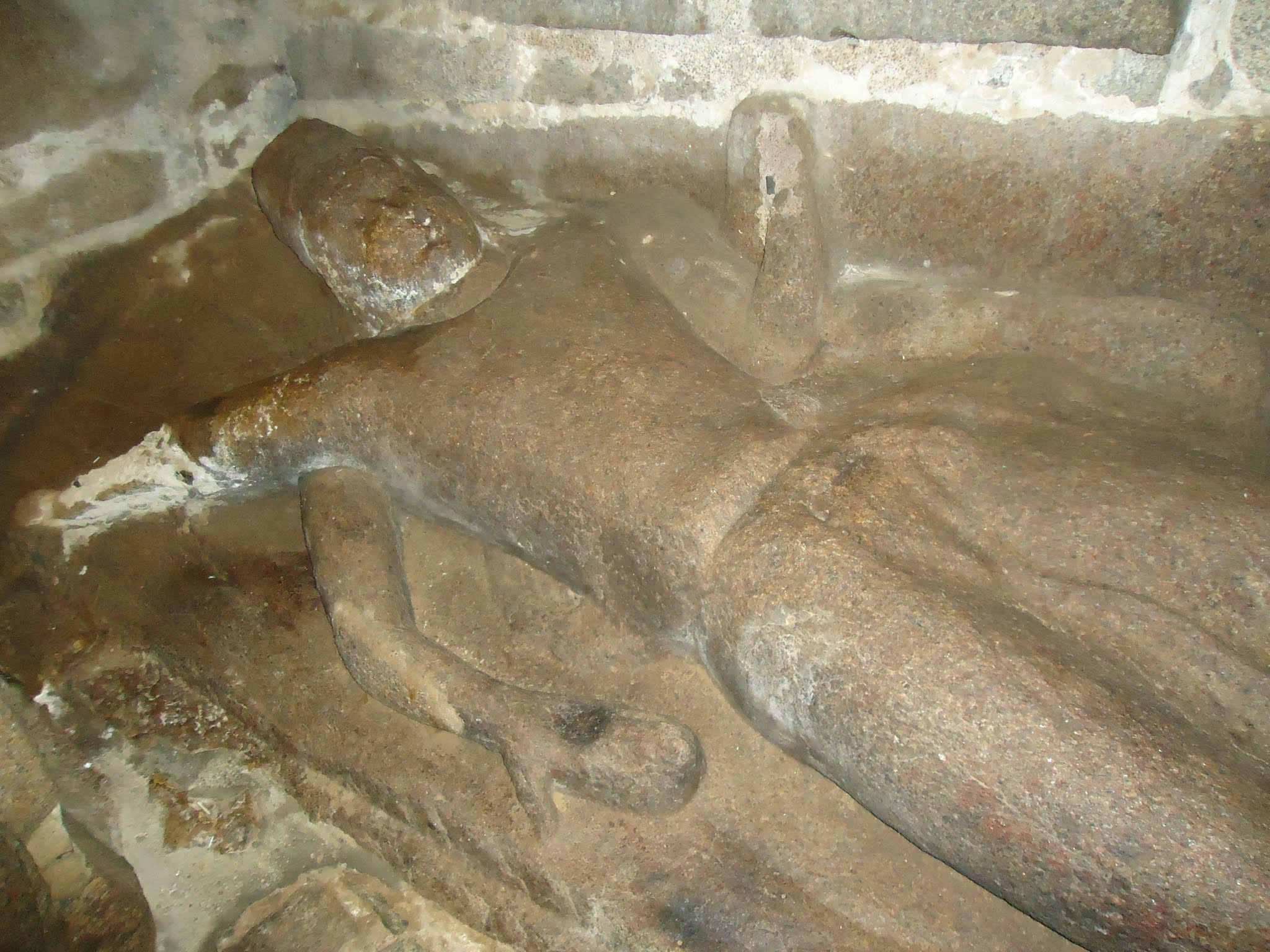 Shore Temple